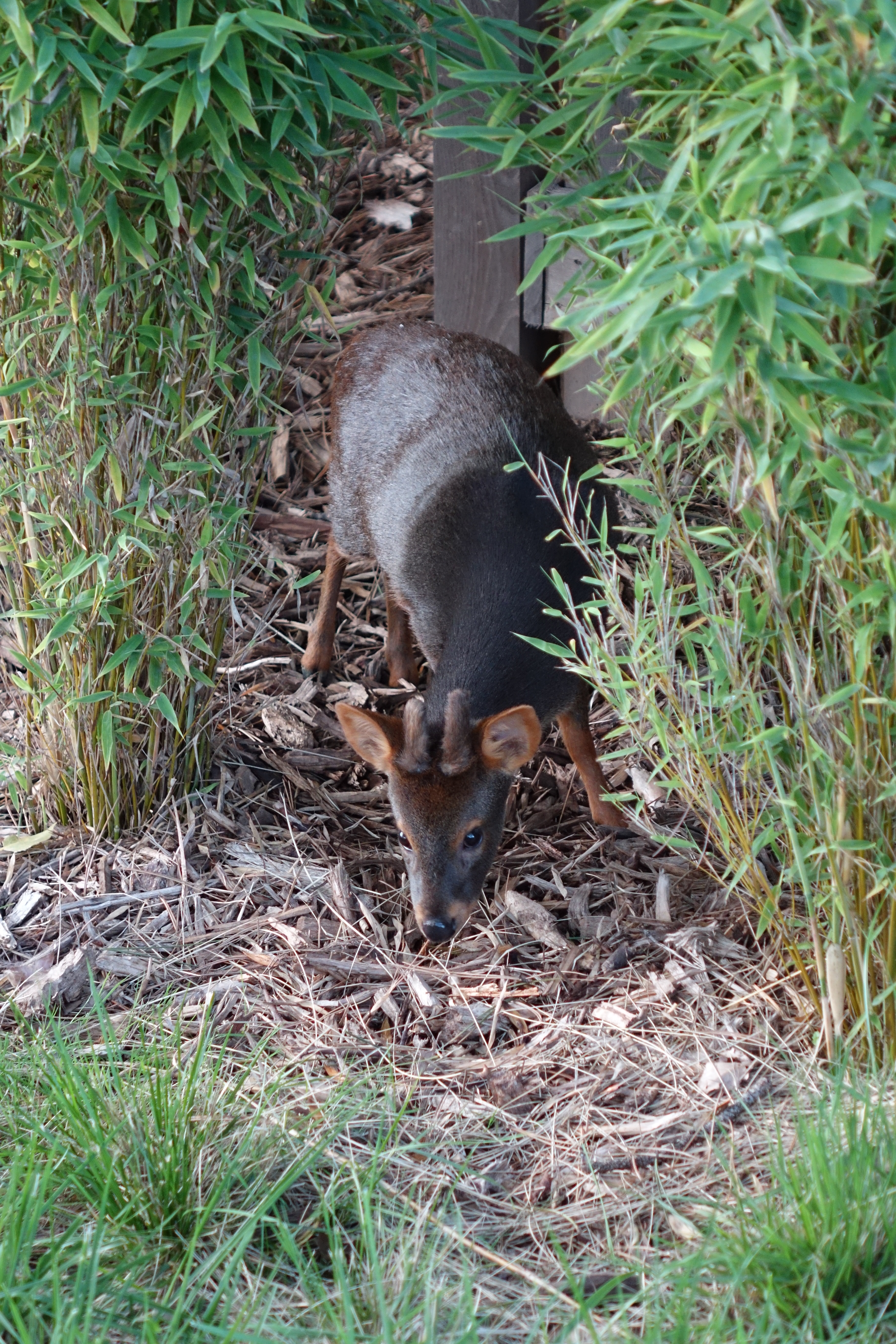 Southern pudu (Pudu puda) in Paris Zoological Park, France